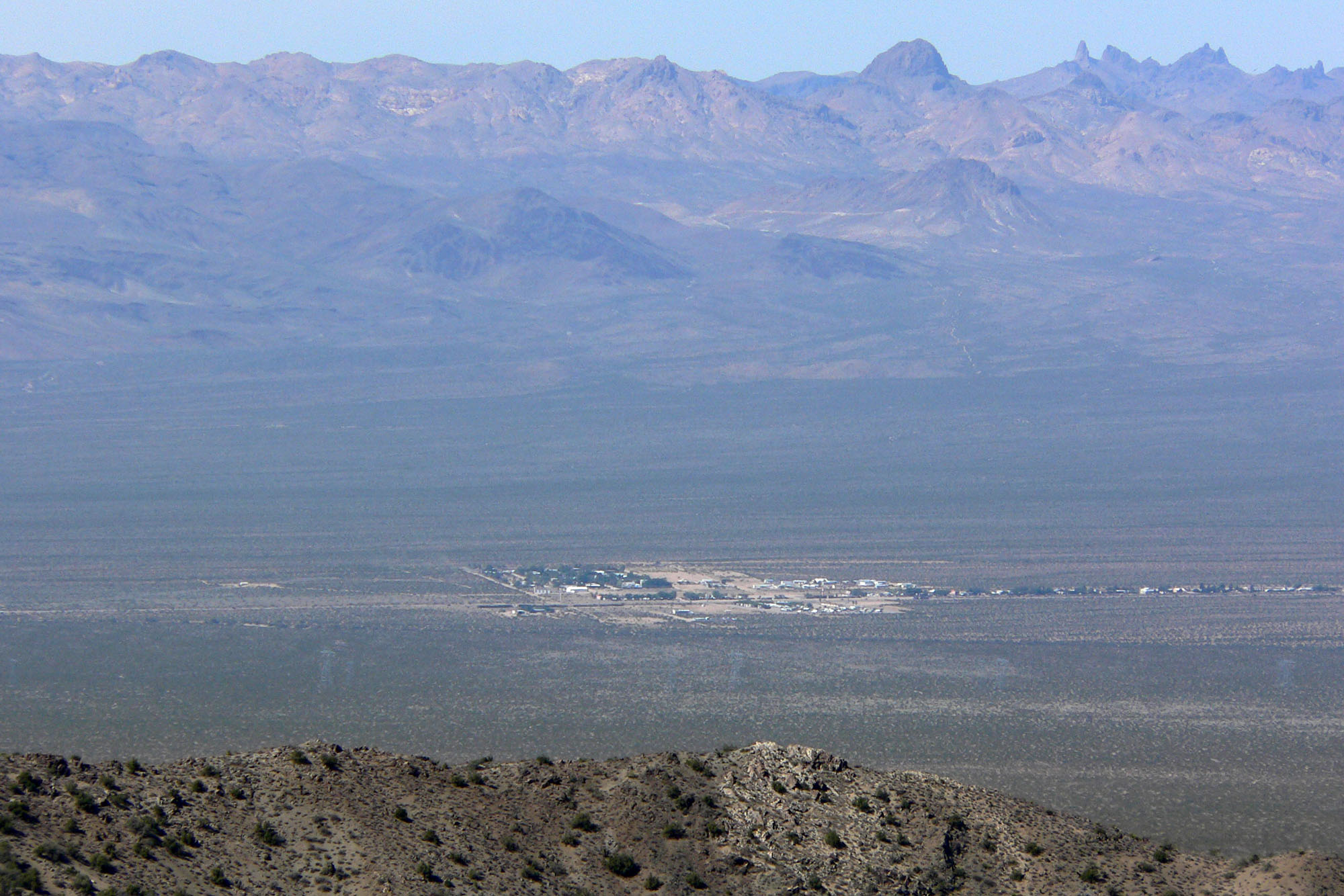 The Piute Valley with Cal-Nev-Ari (town), in the eastern Mojave Desert, primarily in Nevada and California. Seen from Spirit Mountain in the Newberry Mountains range, located in Clark County, southern Nevada. View due west across northern Piute Valley, with the New York Mountains (California) in the distance, and the northern foothills of the Piute Range on the left (to the south).